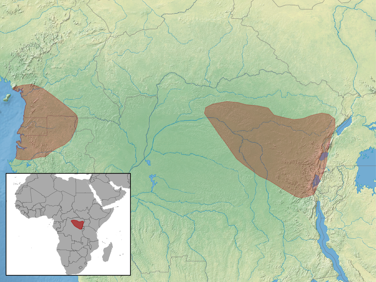 geographic distribution of Anomalurus pusillus